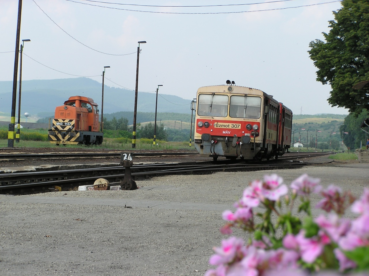 The Kisterenye–Kál-Kápolna train in Kisterenye station, Bátonyterenye, Hungary